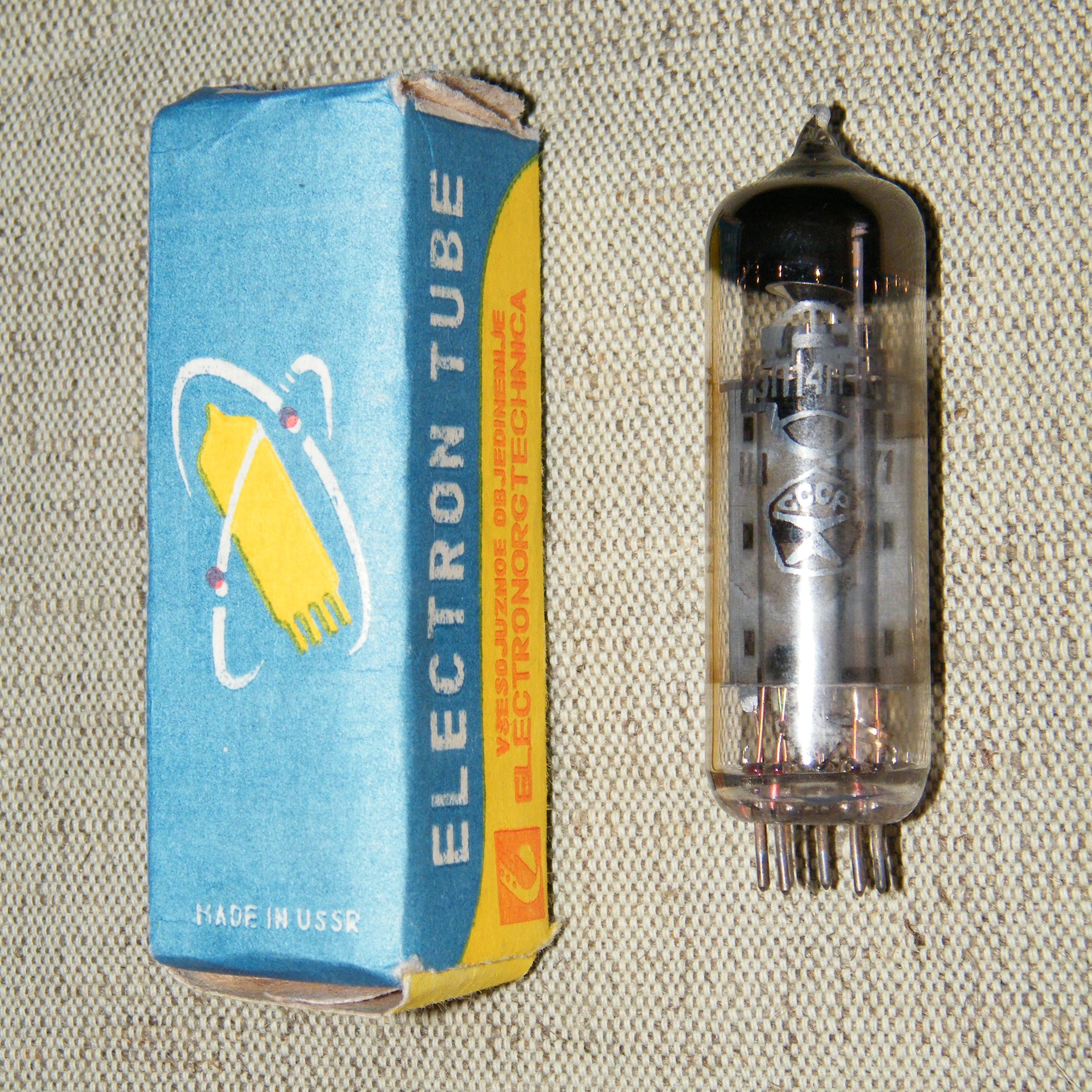 Радиолампа 6П14П СССР